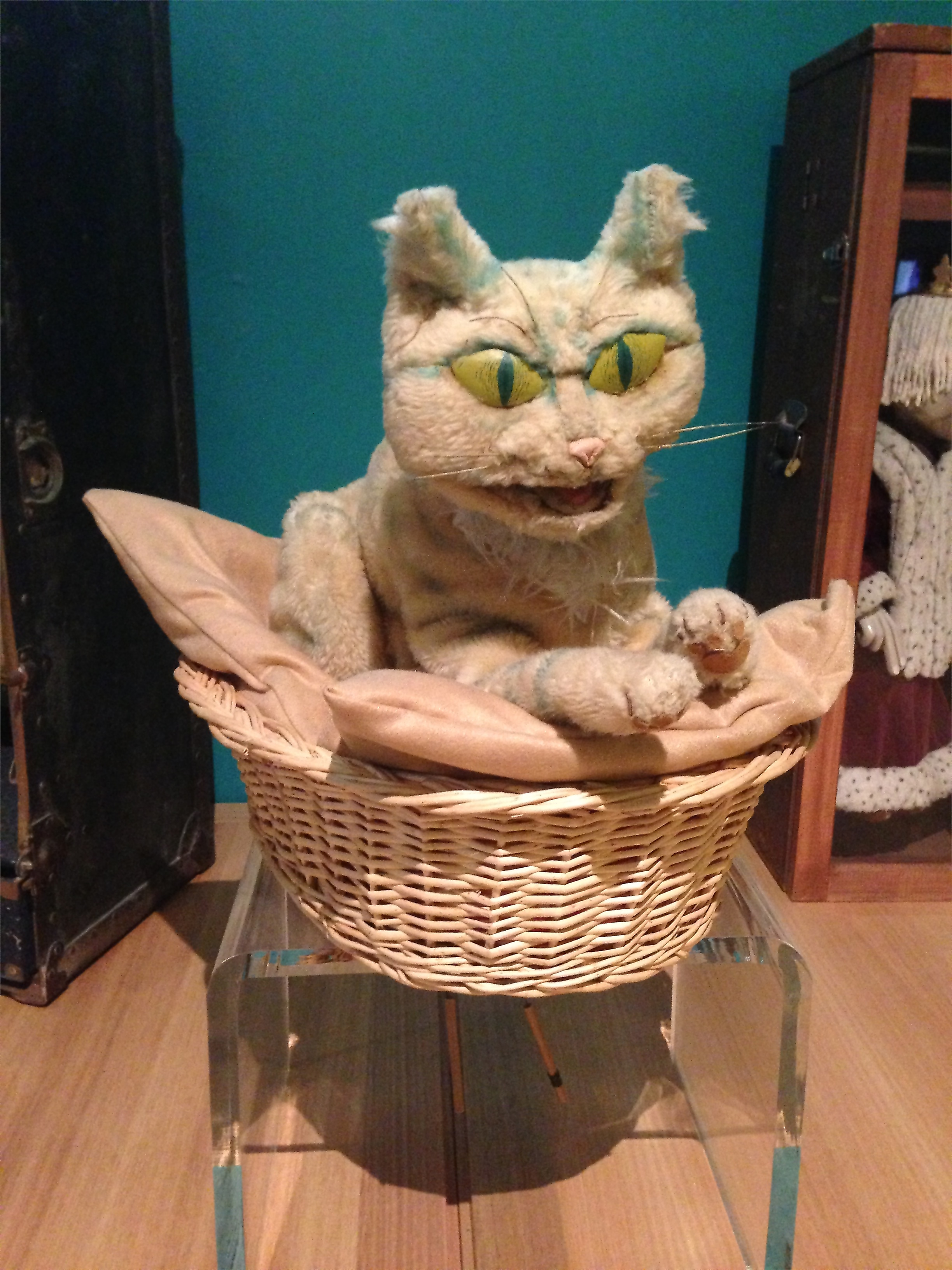 CC (Computer Cat) puppet character from the ABC TV children's television series Hunter. The puppet was created by Terrapin Puppet Theatre in Hobart, Tasmania.